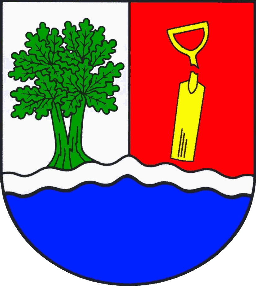 Coat of arms of the municipality Itzstedt in Schleswig-Holstein, Germany.